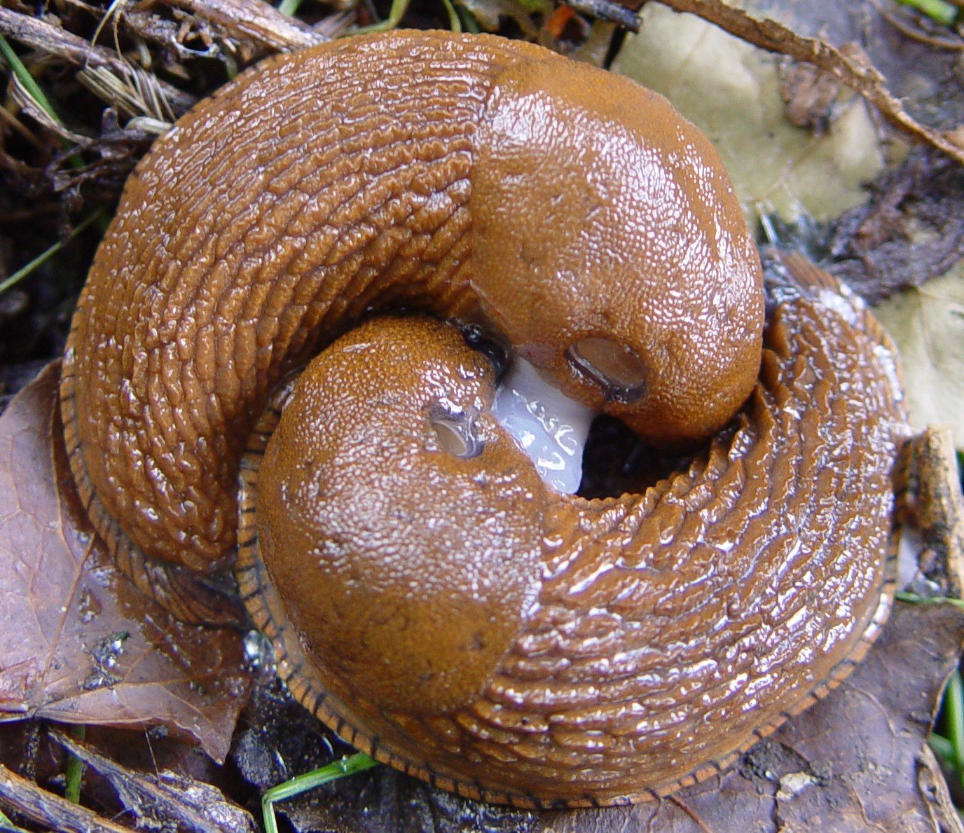 Two Arion vulgaris mating.